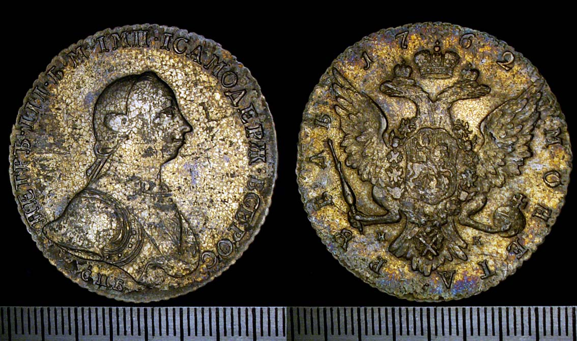 Rubl 1762